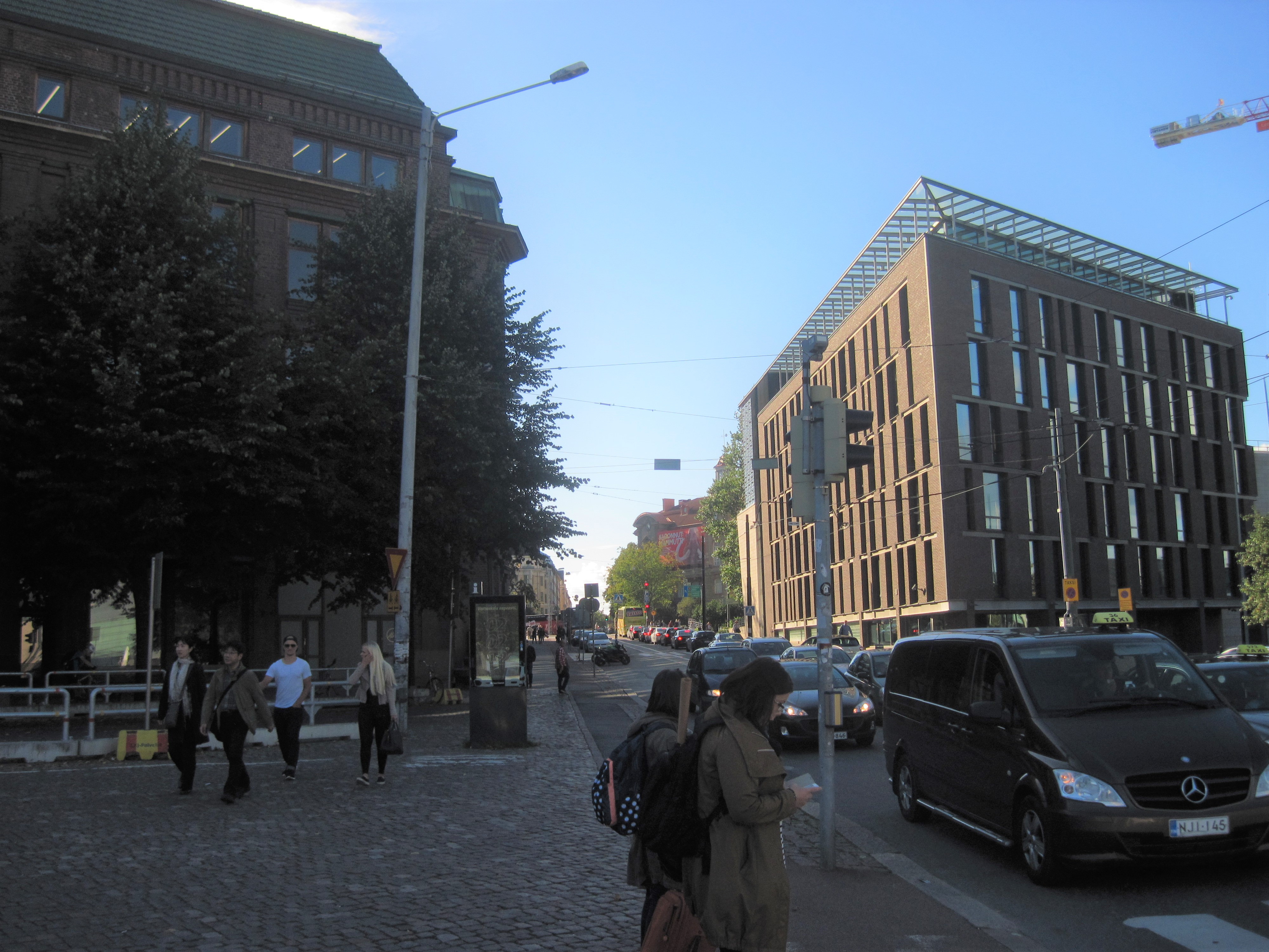 Arkadiankatu in Helsinki, seen from East